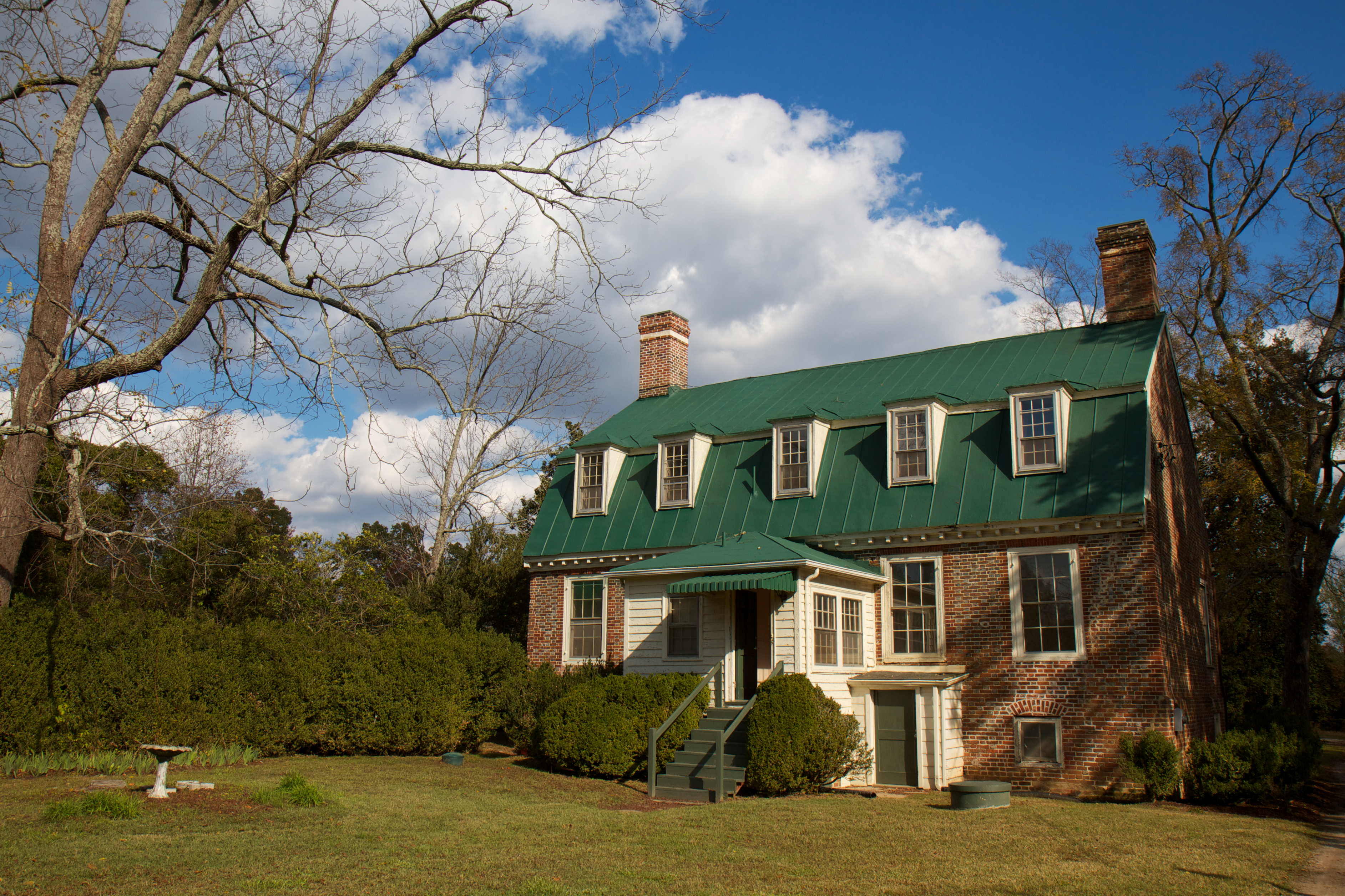 View of the Shelton House near Totopotomoy Creek in Virginia. Revolutionary War patriot Patrick Henry was reportedly married in the parlor of this house. This house was also at the center of the Battle of Totopotomoy Creek during the American Civil War. Photo by Rob Shenk